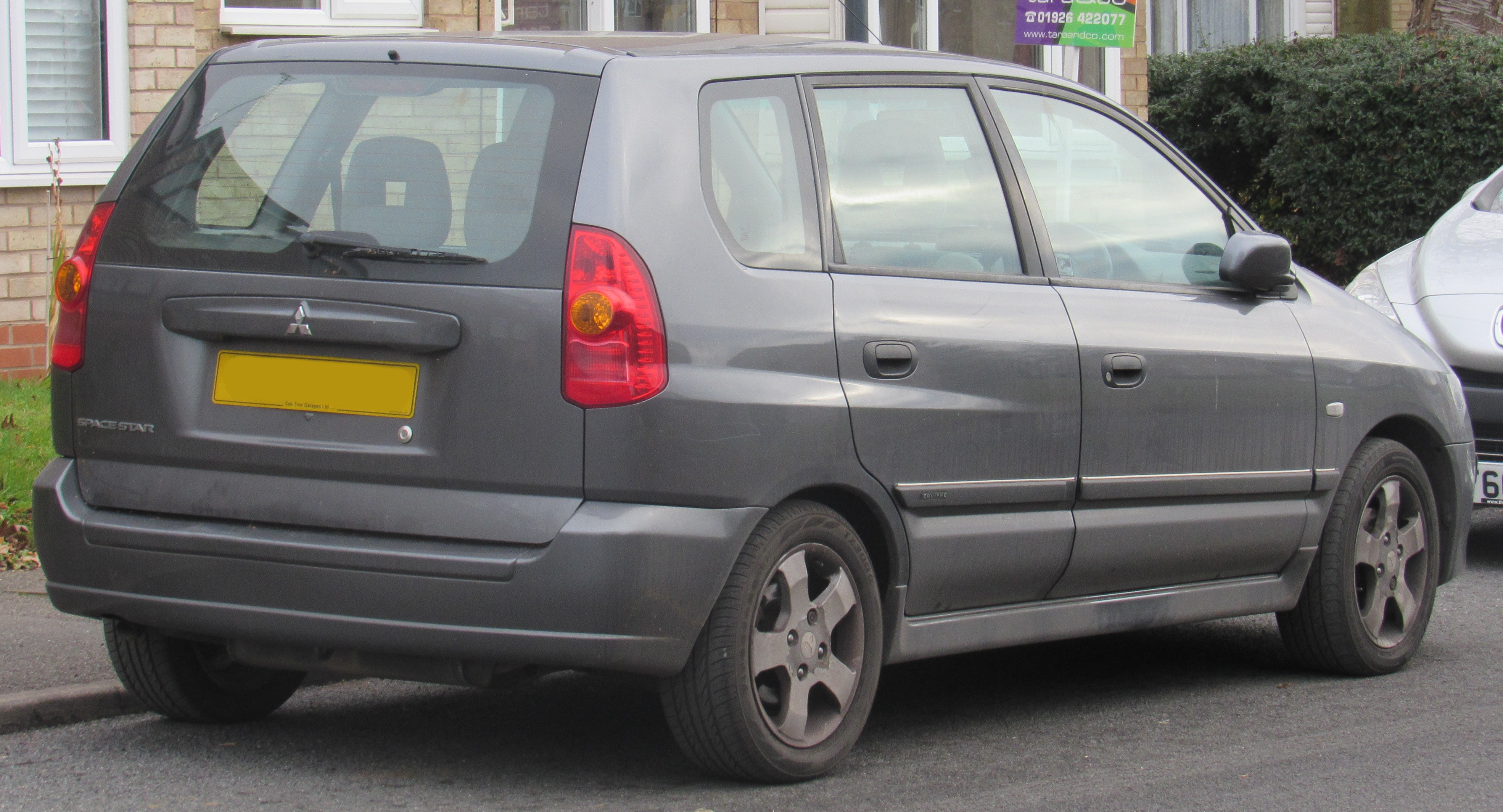 2004 Mitsubishi Space Star Equippe 1.6 facelift Taken in Leamington Spa